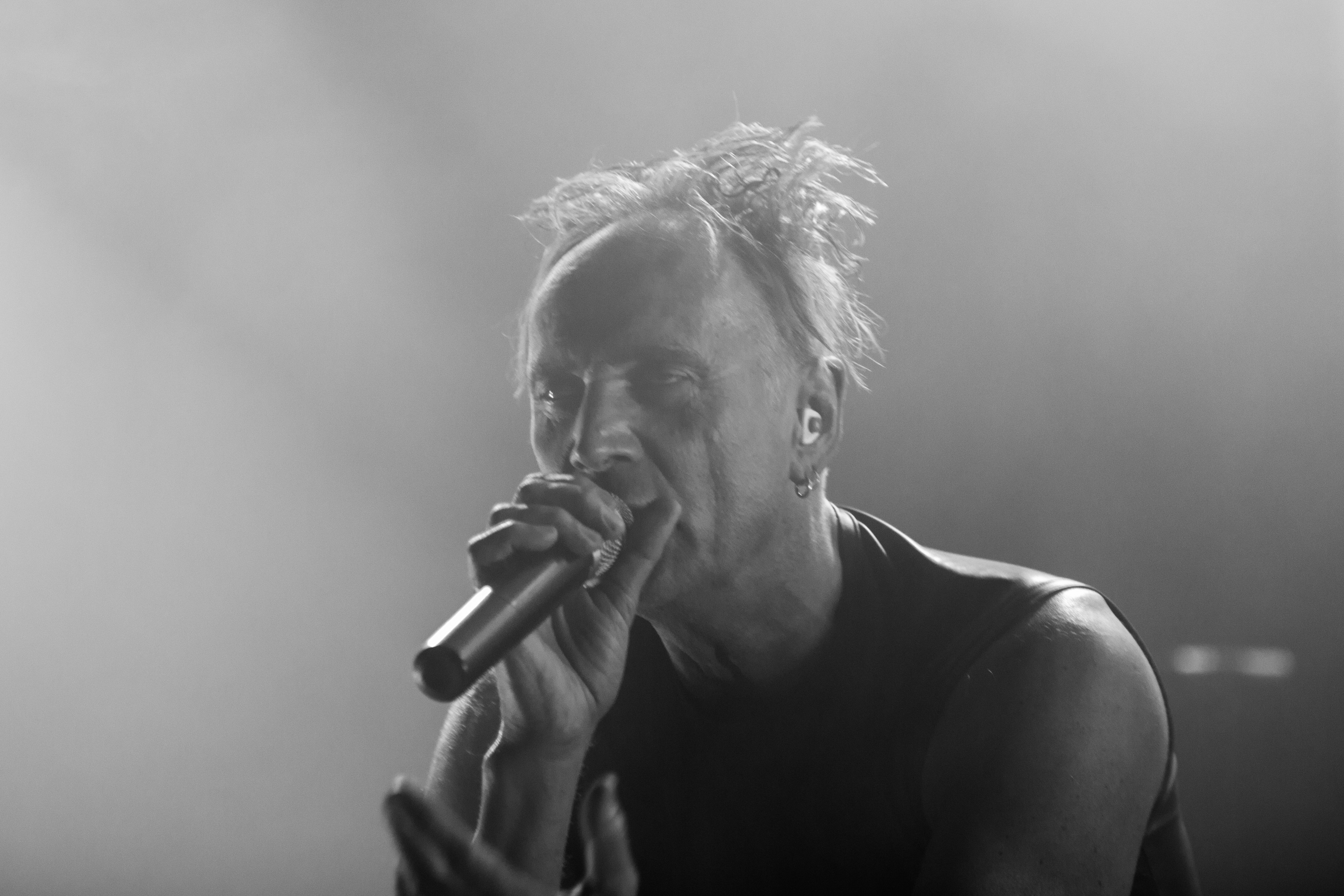 Frontline Assembly, E-Tropolis Festival 2016, Oberhausen Turbinenhalle Festivalsommer This photo was created with the support of donations to Wikimedia Deutschland in the context of the CPB project "Festival Summer".